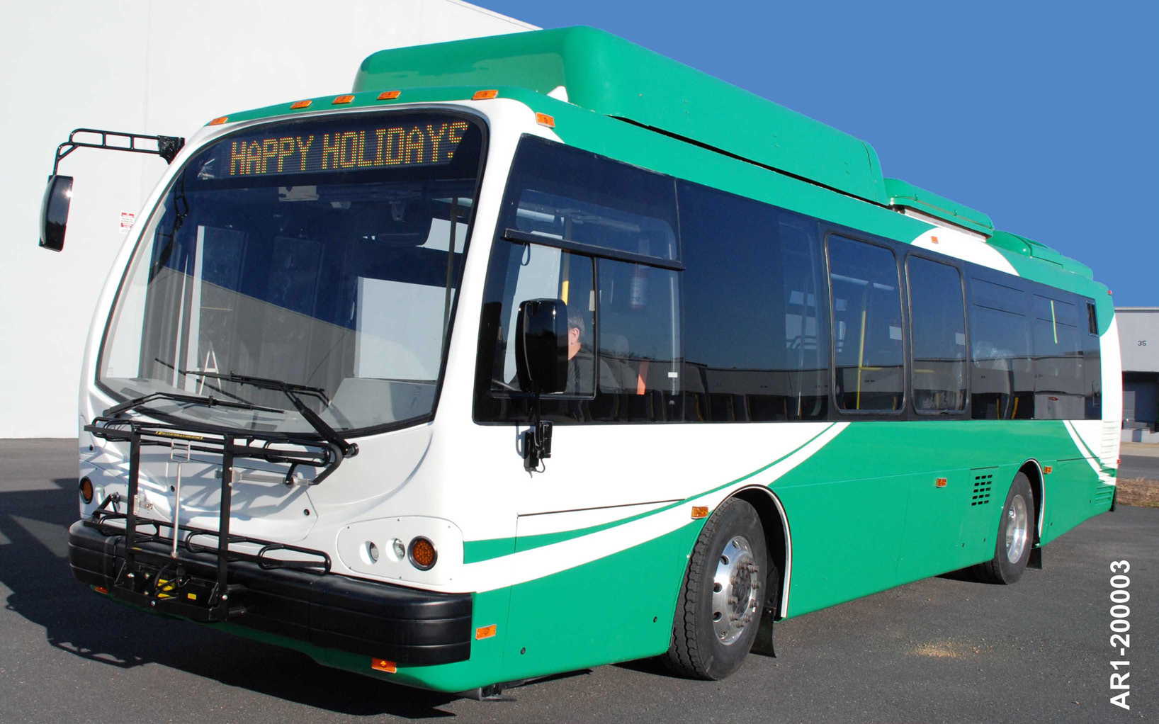 Hybrid bus in front of industrial building